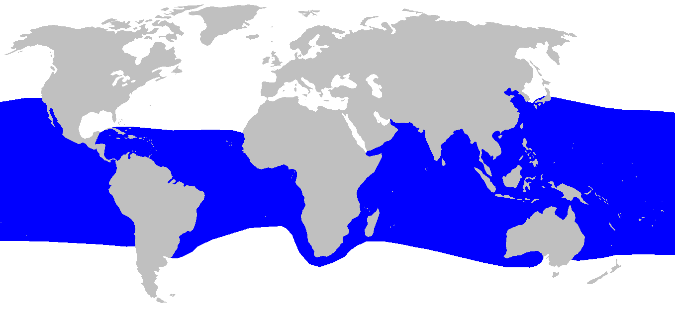 Distribution map for Megachasma pelagios